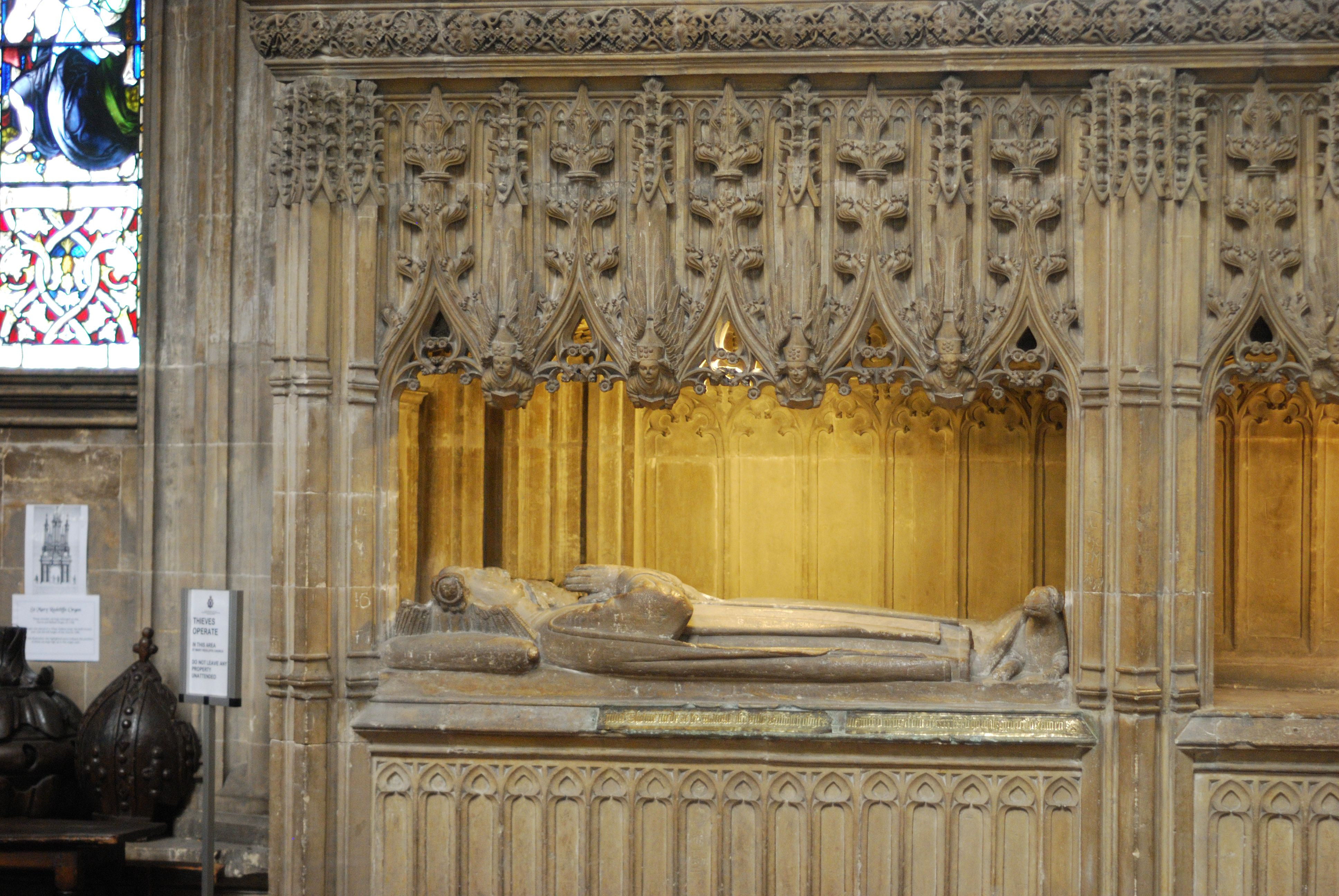 Tomb of Philip Mede MP (died 1475) ain the parish church of St Mary Redcliffe, Bristol, England